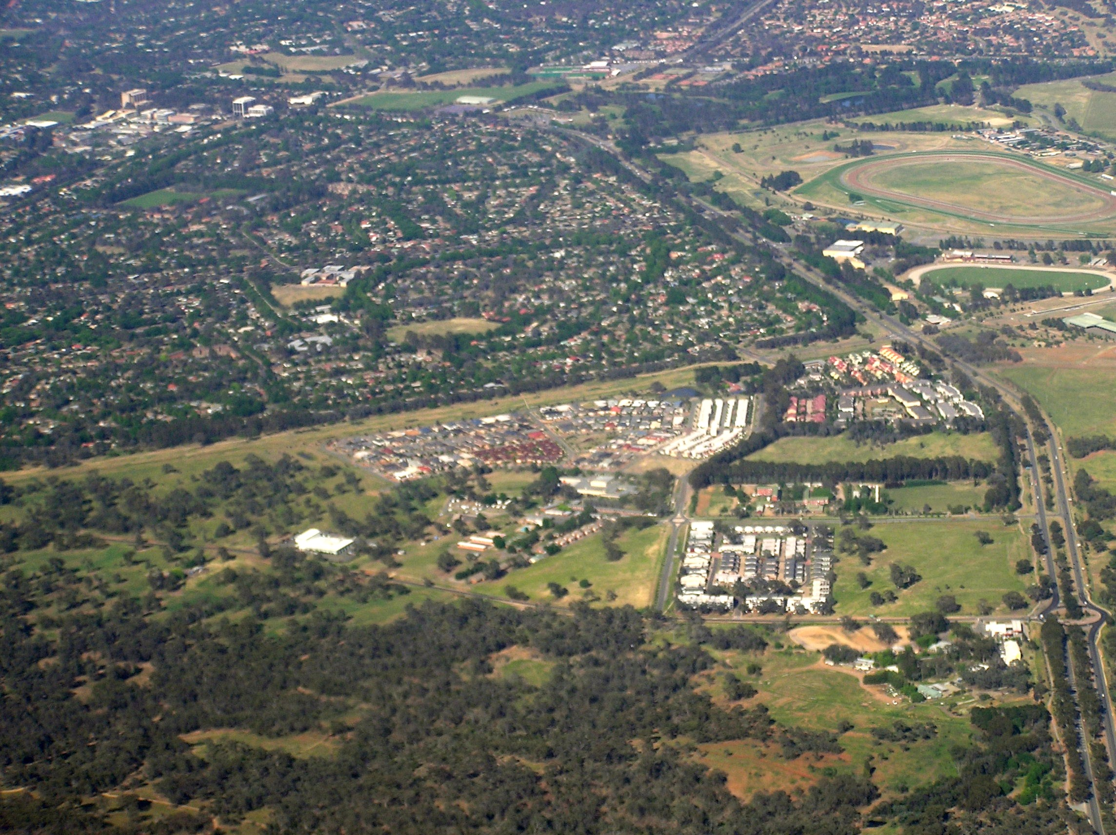 Watson, Australian Capital Territory, with Downer in the background. Federal Highway is on right